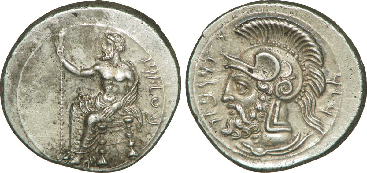 Cilicie, statère à l'effigie du satrape Pharnabazes Description avers : Baaltars nu jusqu’à la ceinture assis à gauche sur un trône sans dossier, tenant de la main droite un long sceptre lotiforme . Description revers : Tête de guerrier barbu (Arès ou Pharnabazes) à gauche, coiffé d’un casque à triple aigrette . Date : c. 378-374 AC. Nom de l'atelier/ville : Tarse